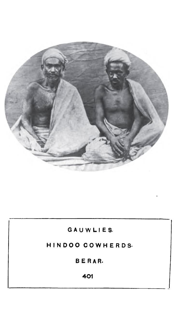 Gauwalies Cowherds in Berar (now Andhra Pradesh), India, 1874